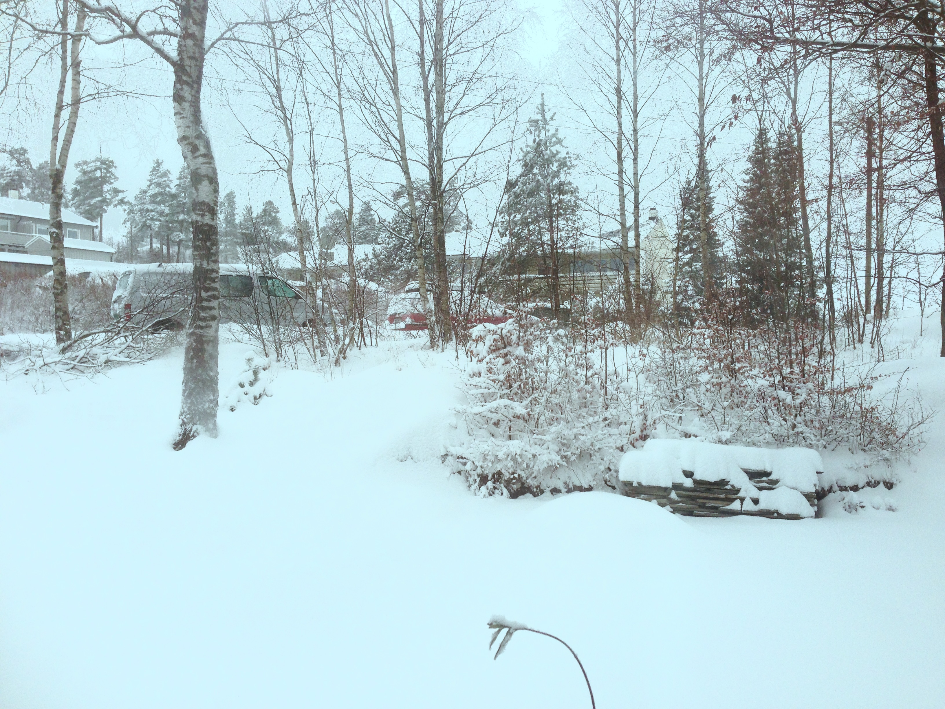 A snowy December day in Sandefjord, Norway. December 15, 2012.